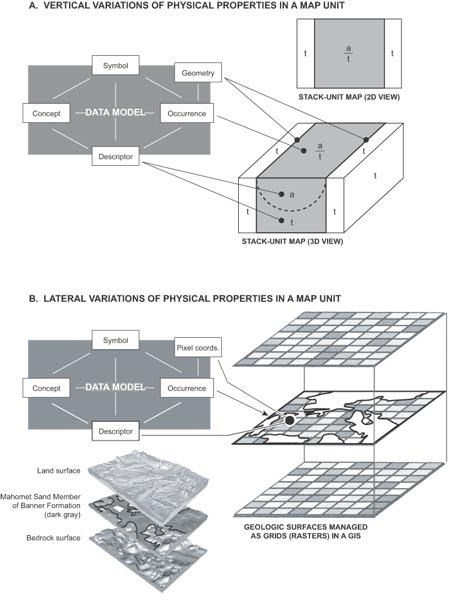 Figure 13. Approaches for representing three-dimensional map information, and for managing it in the data model. A. Vector-based stack-unit maps depict the vertical succession of geologic units to a specified depth (here, the base of the block diagram). This mapping approach characterizes the vertical variations of physical properties in each 3-D map unit. In this example, an alluvial deposit (unit “a”) overlies glacial till (unit “t”), and the stack-unit labeled “a/t” indicates that relationship, whereas the unit “t” indicates that glacial till extends down to the specified depth. In a manner similar to that shown in figure 11, the stack-unit’s occurrence (the map unit’s outcrop), geometry (the map unit’s boundaries), and descriptors (the physical properties of the geologic units included in the stack-unit) are managed as they are for a typical 2-D geologic map. B. Raster-based stacked surfaces depict the surface of each buried geologic unit, and can accommodate data on lateral variations of physical properties. In this example from Soller and others (1999), the upper surface of each buried geologic unit was represented in raster format as an ArcInfo Grid file. The middle grid is the uppermost surface of an economically important aquifer, the Mahomet Sand, which fills a pre- and inter-glacial valley carved into the bedrock surface. Each geologic unit in raster format can be managed in the data model, in a manner not dissimilar from that shown for the stack-unit map. The Mahomet Sand is continuous in this area, and represents one occurrence of this unit in the data model. Each raster, or pixel, on the Mahomet Sand surface has a set of map coordinates that are recorded in a GIS (in the data model bin that is labeled “Pixel coordinates”, which is the raster corollary of the “Geometry” bin for vector map data). Each pixel can have a unique set of descriptive information, such as surface elevation, unit thickness, lithology, transmissivity, etc.).